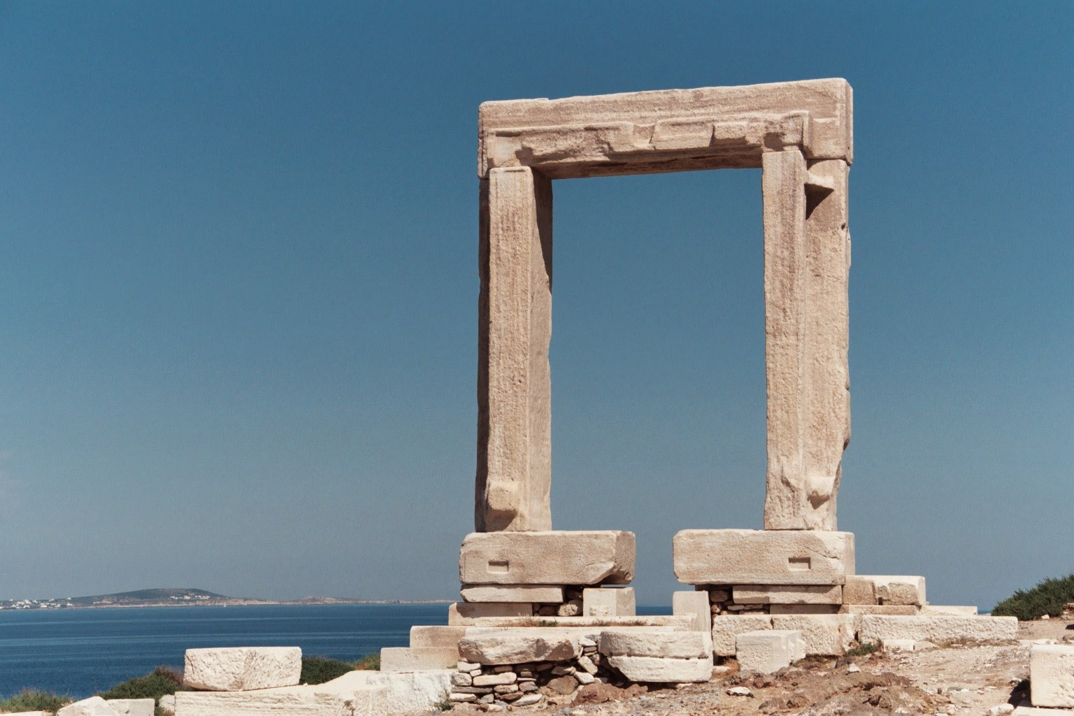 Naxos, Templeentrance, Landmark, Greece